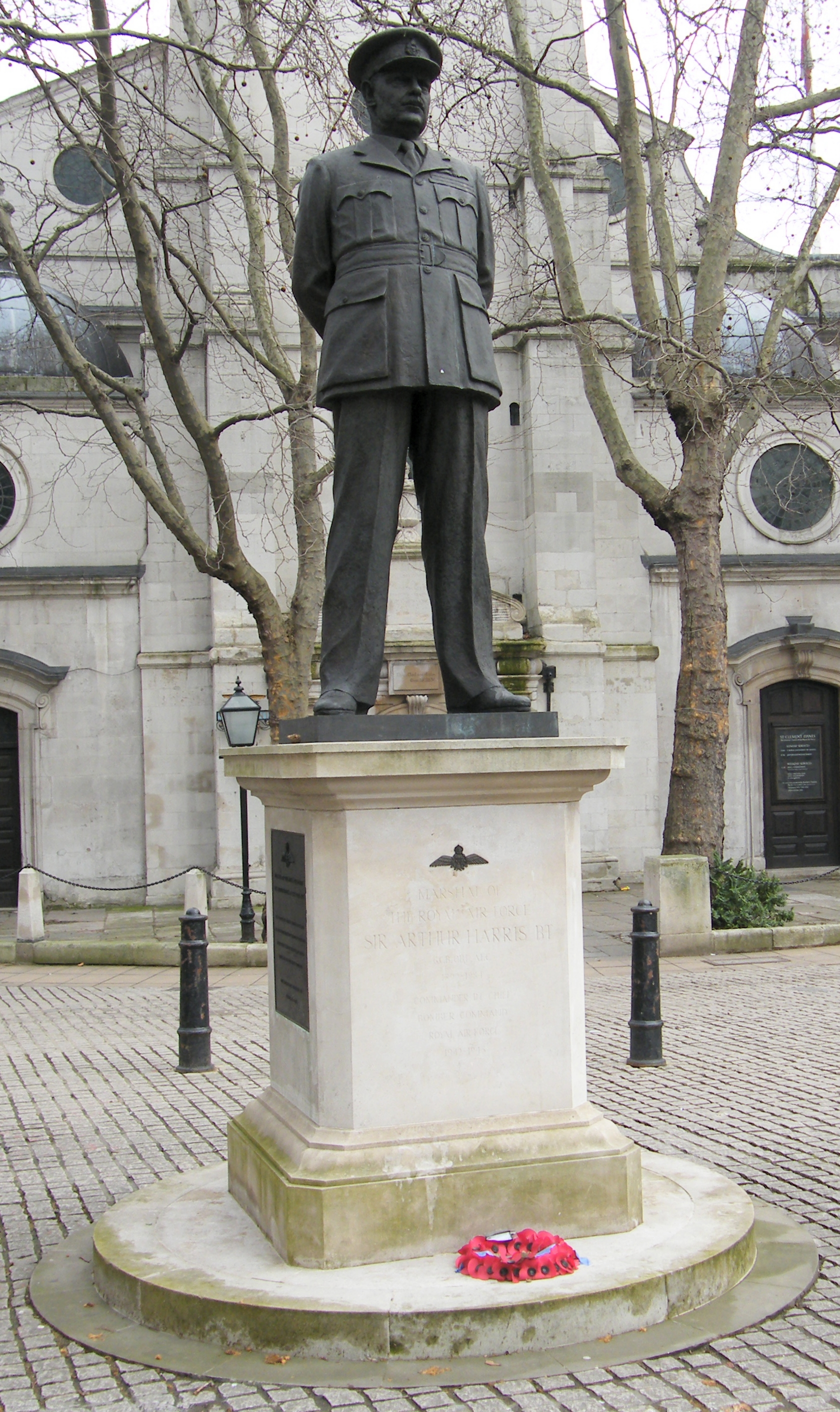 Statue of Marshal of the RAF Sir Arthur Harris outside the central church of the RAF, St. Clement Danes. The front of the stone base bears the inscription: MARSHAL OF THE ROYAL AIR FORCE SIR ARTHUR HARRIS BT G.C.B. O.B.E. A.F.C. 1892 – 1984 COMMANDER-IN-CHIEF BOMBER COMMAND ROYAL AIR FORCE 1942 - 1945 The side of the base bears a plaque with the words: MARSHAL OF THE ROYAL AIR FORCE SIR ARTHUR HARRIS BT GCB OBE AFC IN MEMORY OF A GREAT COMMANDER AND OF THE BRAVE CREWS OF BOMBER COMMAND, MORE THAN 55,000 OF WHOM LOST THEIR LIVES IN THE CAUSE OF FREEDOM. THE NATION OWES THEM ALL AN IMMENSE DEBT The sculptor was Faith Winter, the architects were Tony Hart and Mike Goss